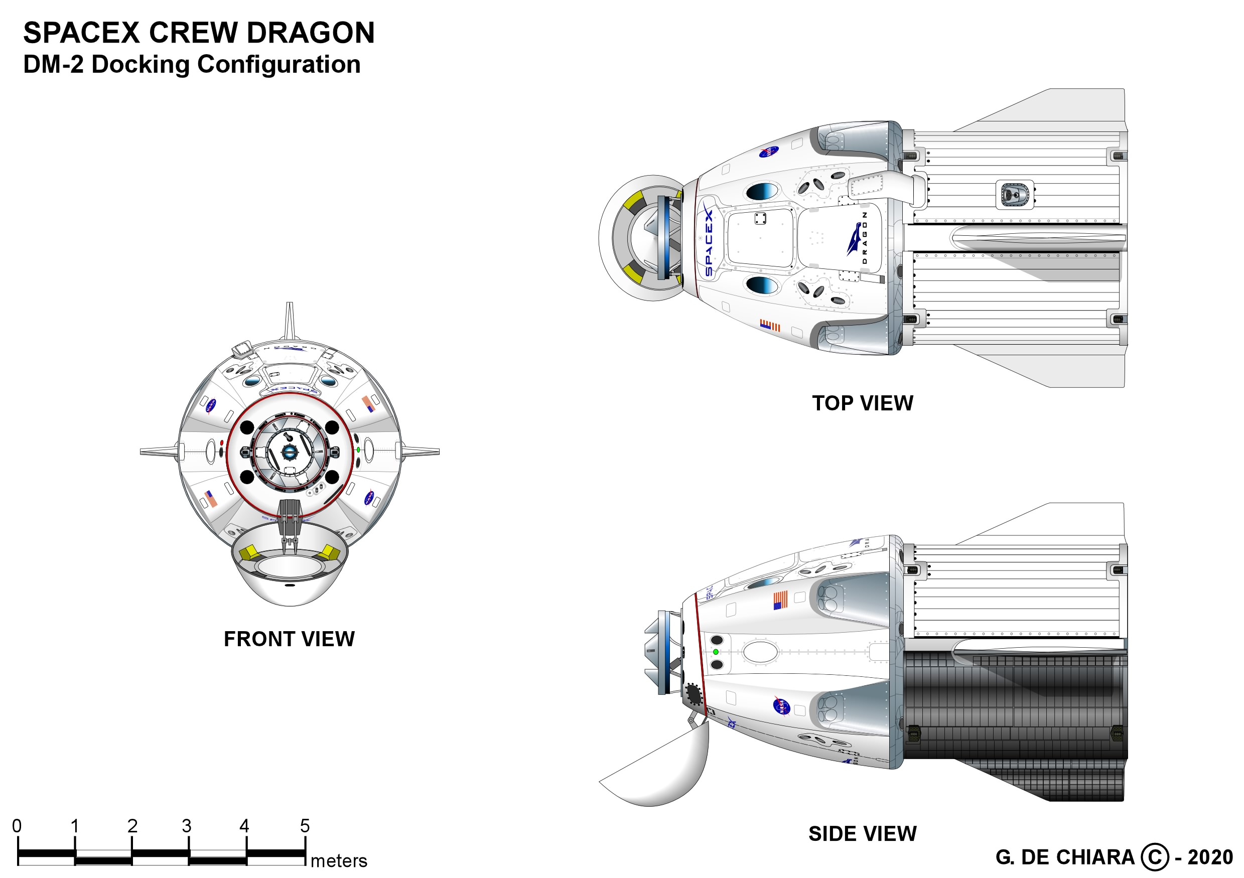 Crew Dragon Docking Configuration